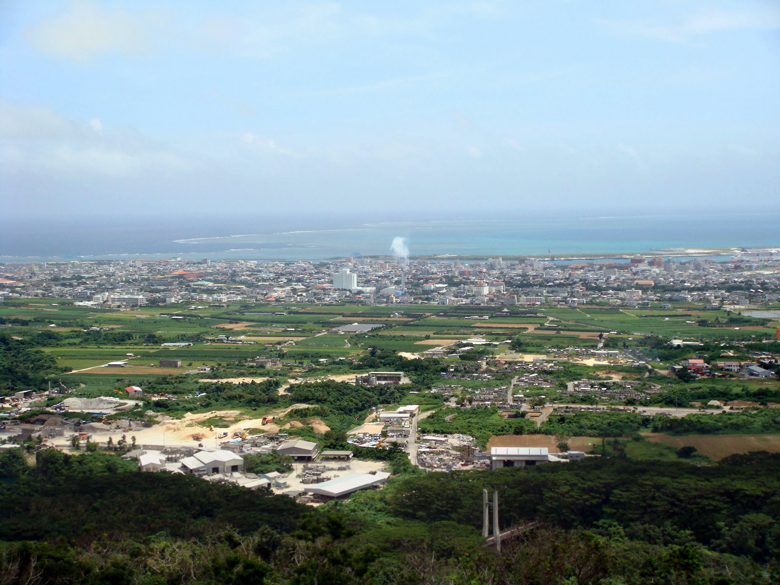 Centeral area of Ishigaki City, Okinawa Prefecture, Japan